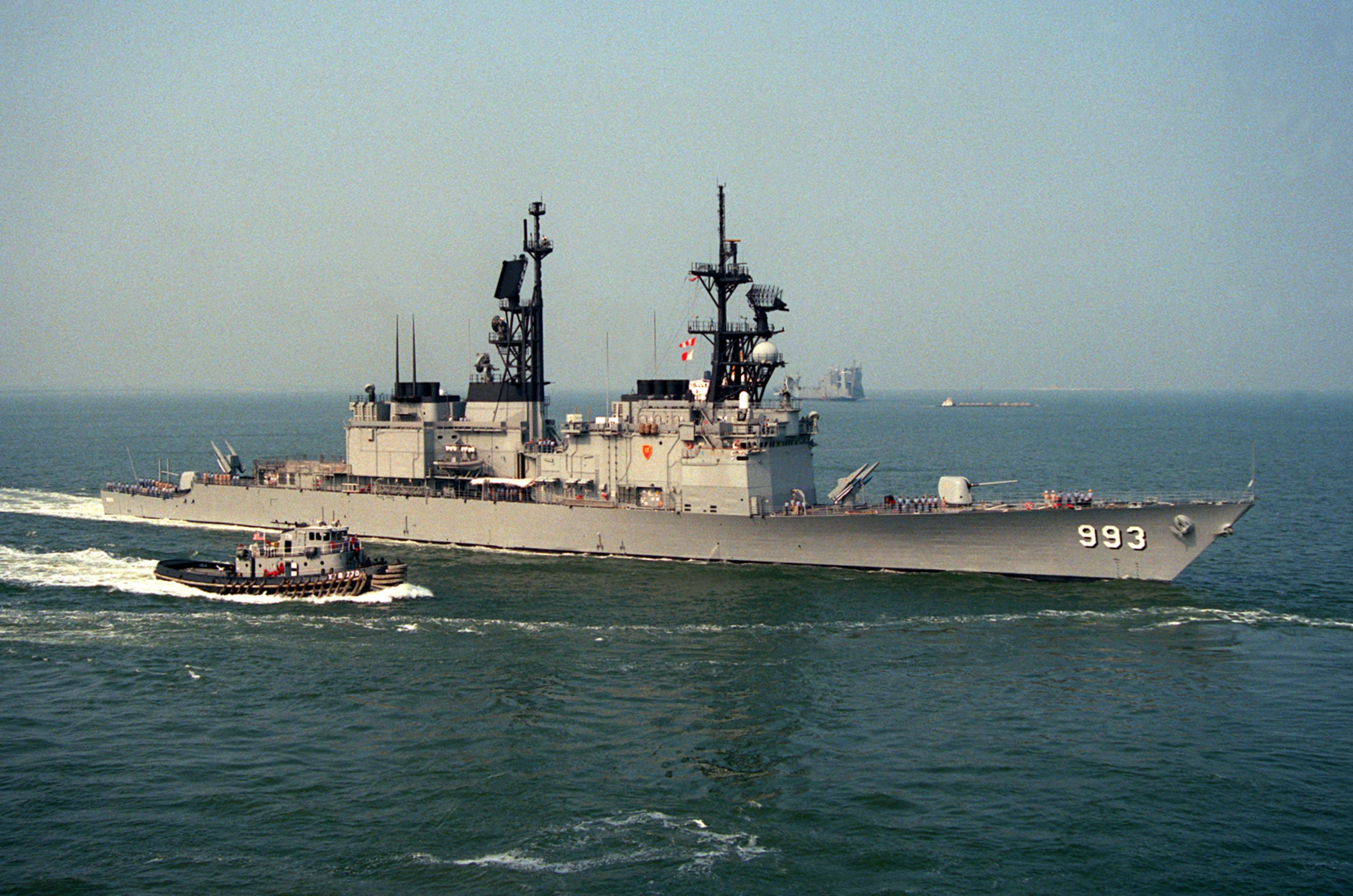 The U.S. Navy large harbor tug Dahlonega (YTB-770) escorts the guided missile destroyer USS Kidd (DDG-993) in Hampton Roads (USA) as the ship gets underway en route to the Persian Gulf in 1990.